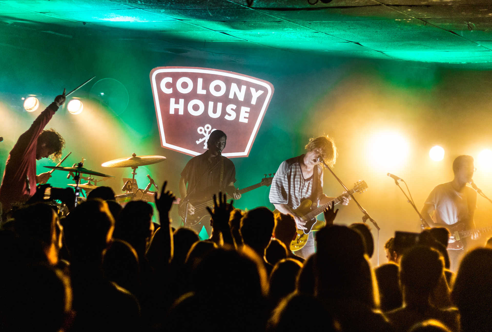 Colony House (Band) performing a concert at the Bottleneck on October 26, 2018 in Lawrence, KS.